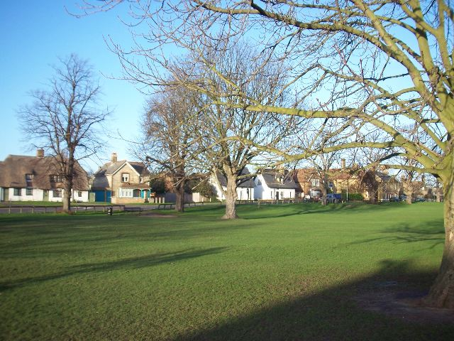 Brampton Village Green Owned by the Parish Council and used for many village events. In a conservation area and surrounded by a number of listed buildings. The pond was filled-in in 1955. The size and shape suggests that it was probably used for longbow practice at one time.